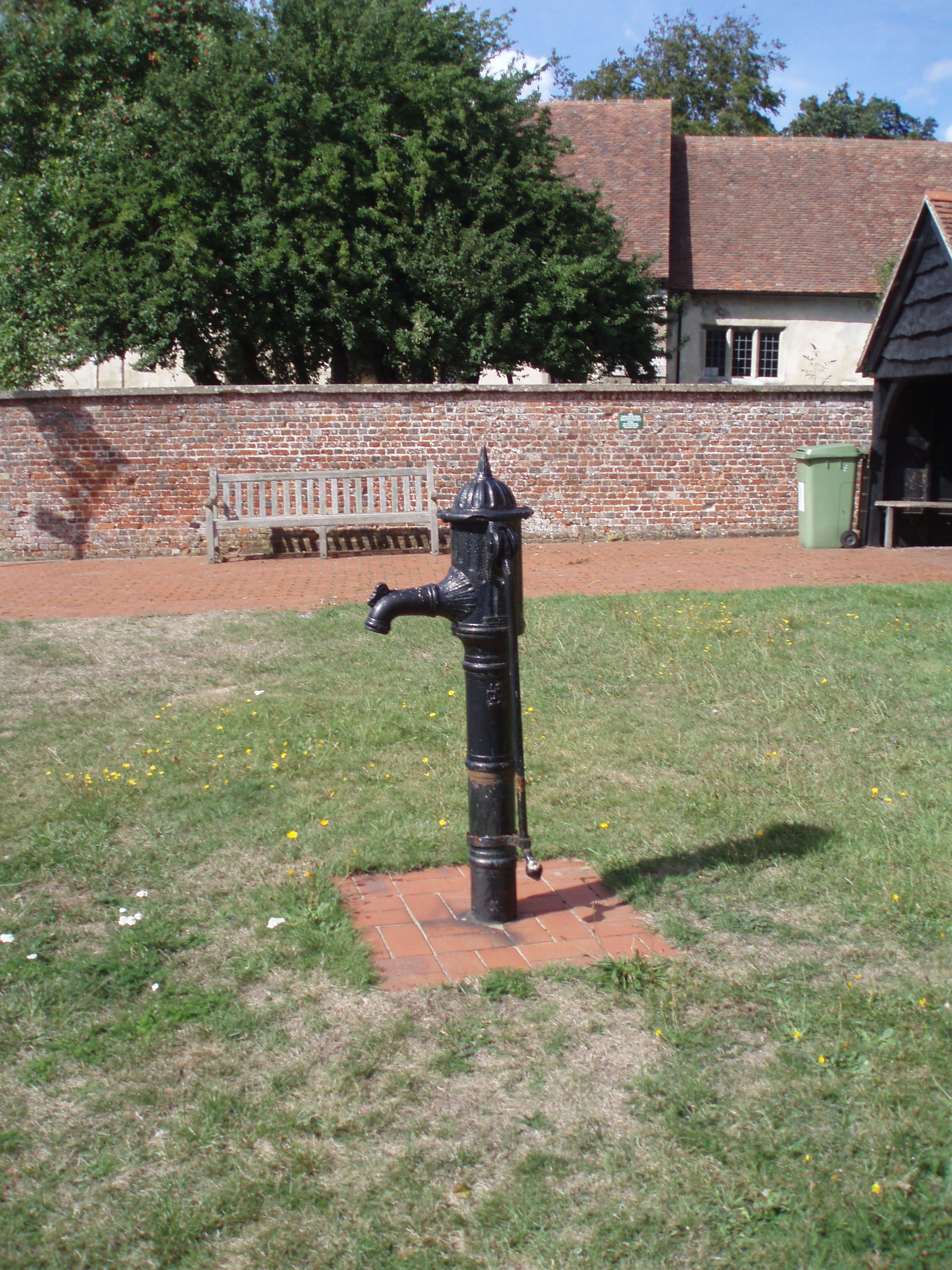 Photo taken by M.Eyre 27th August 2006